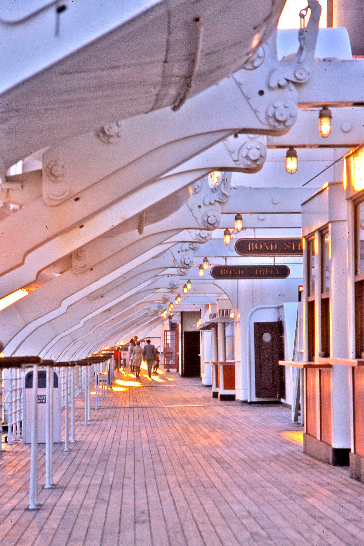 Starboard sun deck of the Queen Mary, docked in Long Beach, California, 1972 Other information Photo by George Garrigues